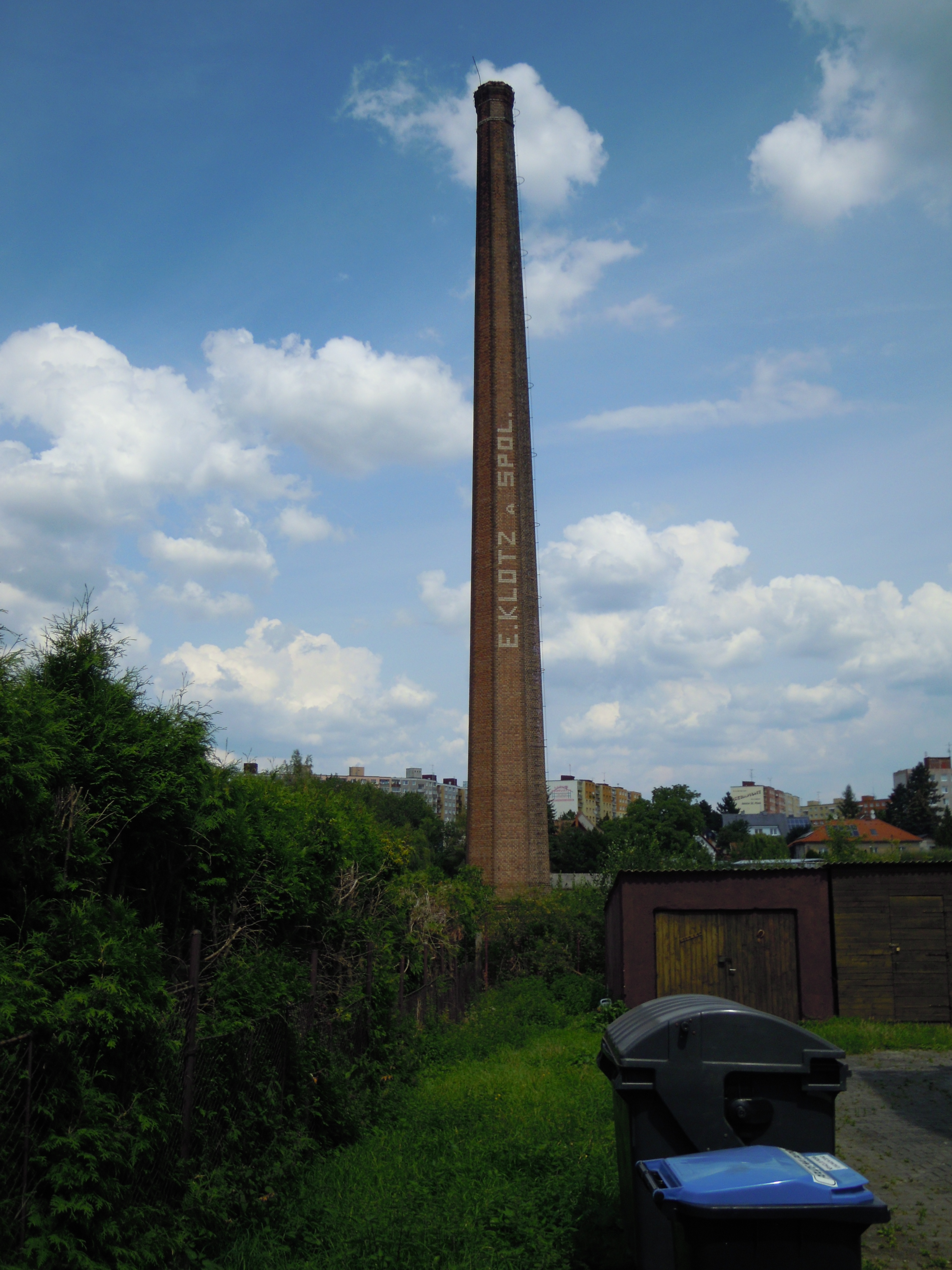 Plzeň-Košutka, chimney of a defunct brick factory